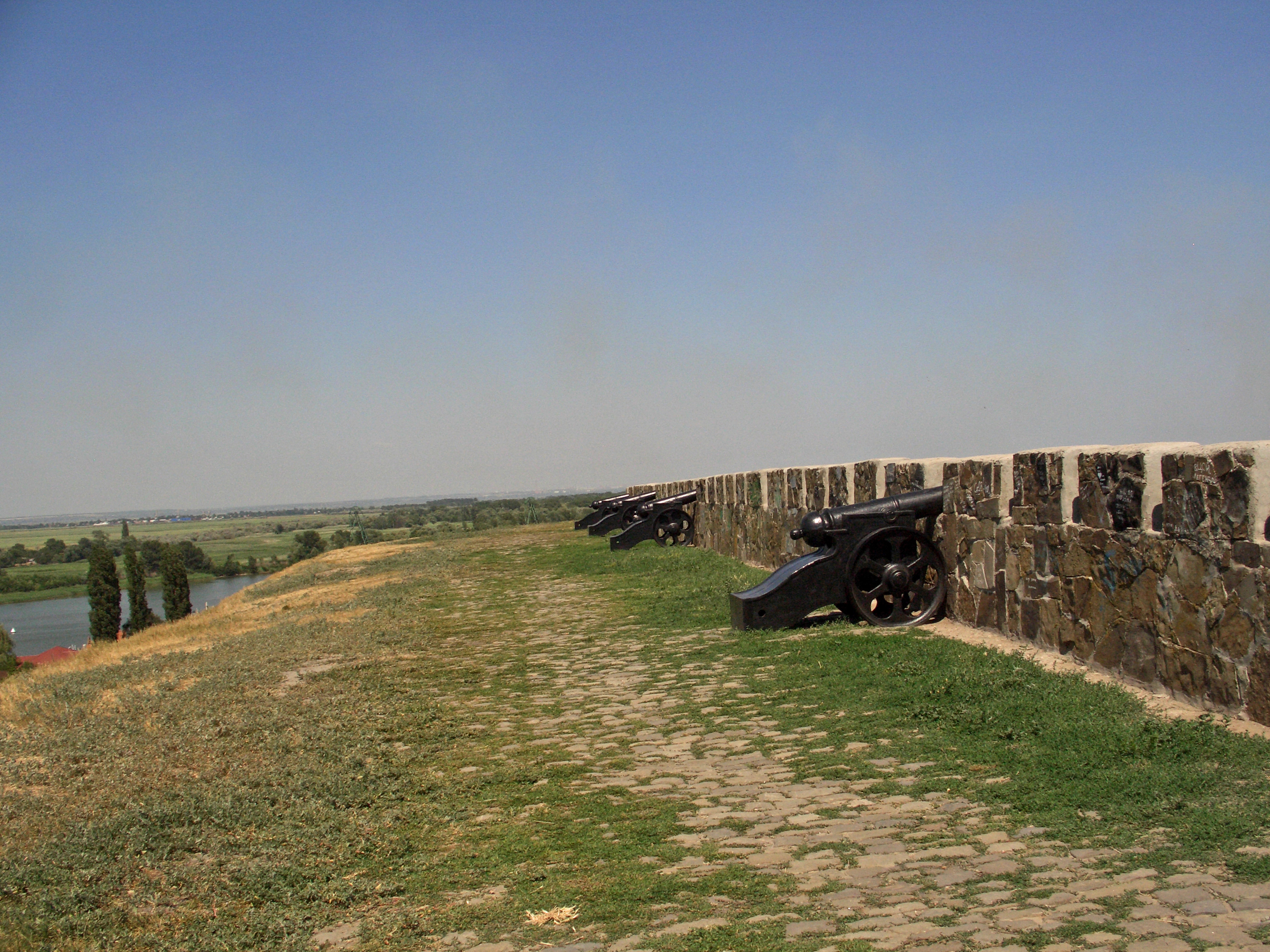 Wall of Azov Frtress